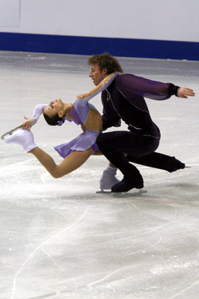 Lubov Iliushechkina and Nodari Maisuradze perform a pair spin at the 2008 World Junior Figure Skating Championships. He is in a sit spin position and she is in a catch-foot layback position.